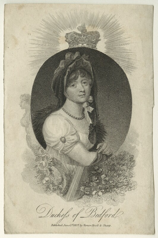 National Portrait Gallery, stipple engraving, published 1807 6 5/8 in. x 4 3/8 in. (168 mm x 111 mm) paper size Given by Julian Perfect, 2006 NPG D23517